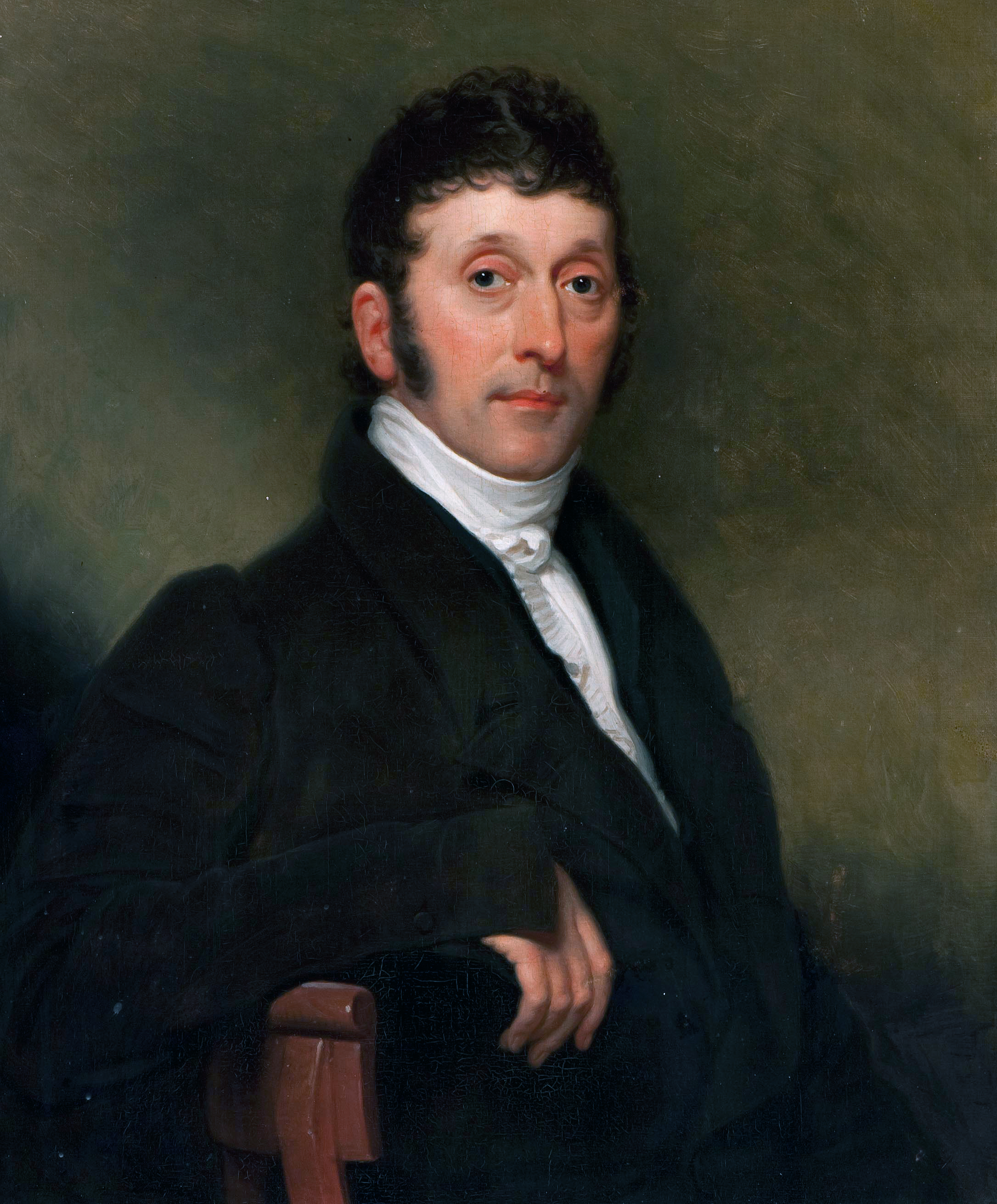 Mr. Adriaan van Beusechem, Heer van Harmelen (1776 - 1846) marouflage 72.7 x 61.2 cm circa 1820/1825